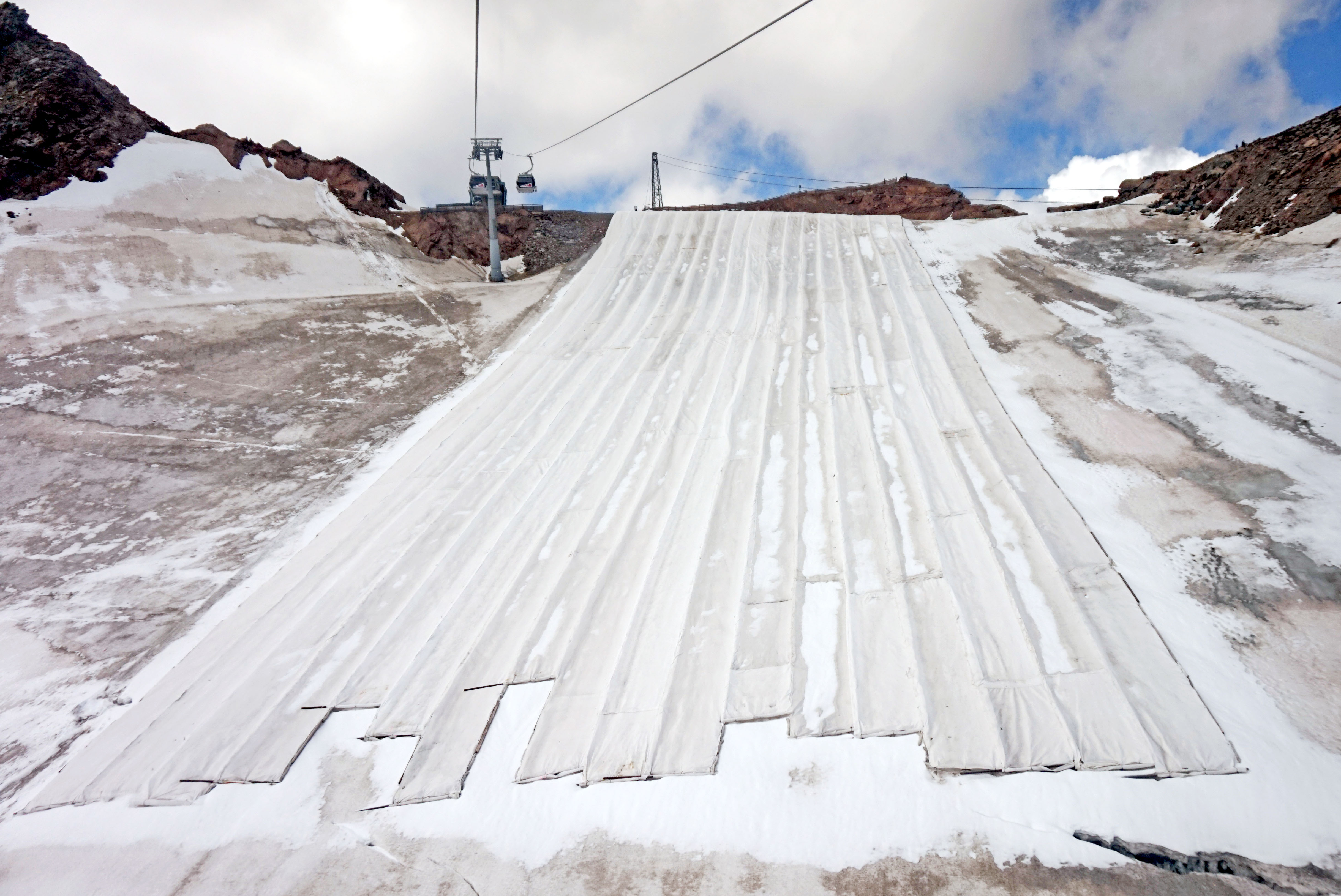 Tiefenbach glacier covered with plastic. Sölden, Austria.